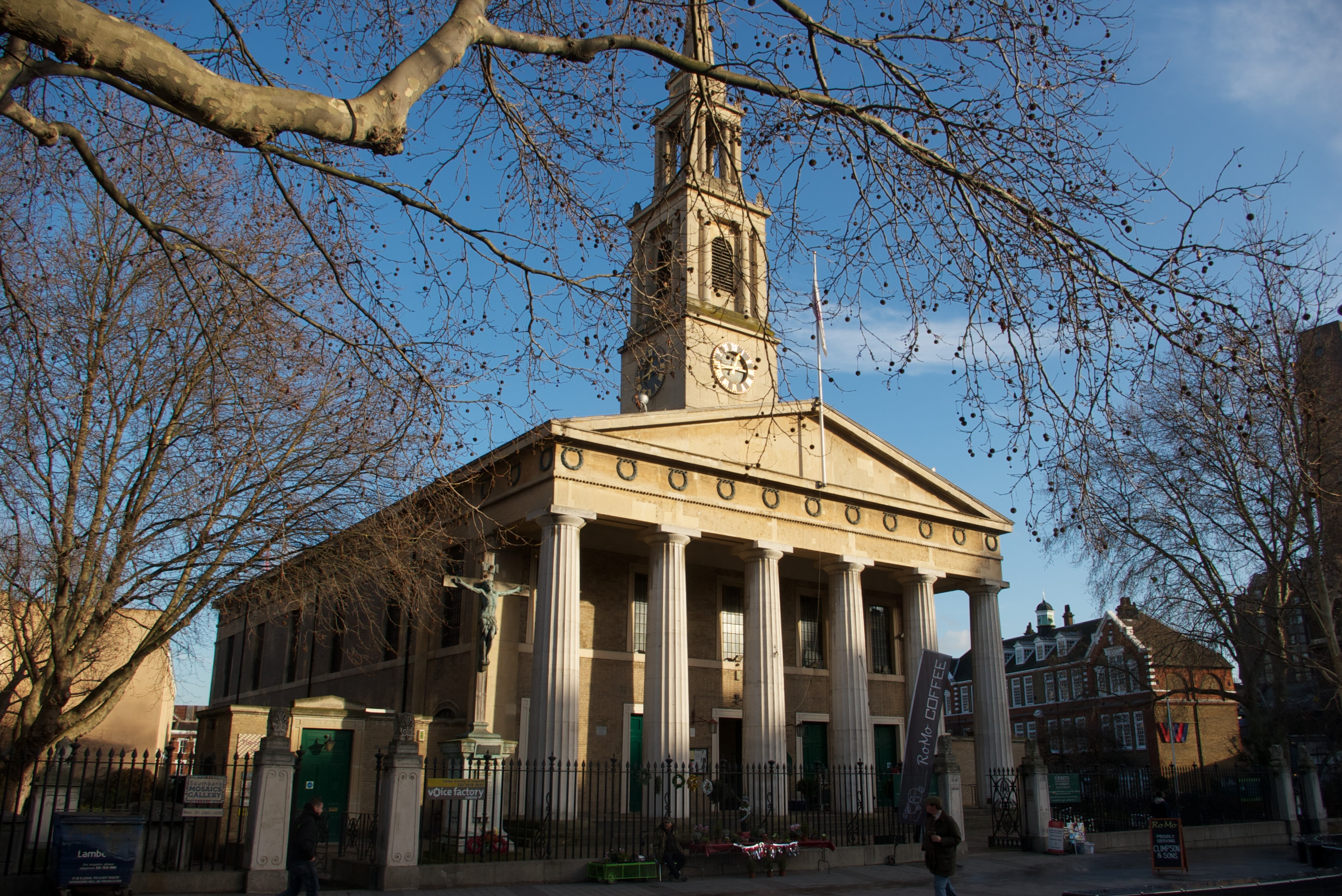 Columns in front of St John's Church, Waterloo Road, Lambeth, London.